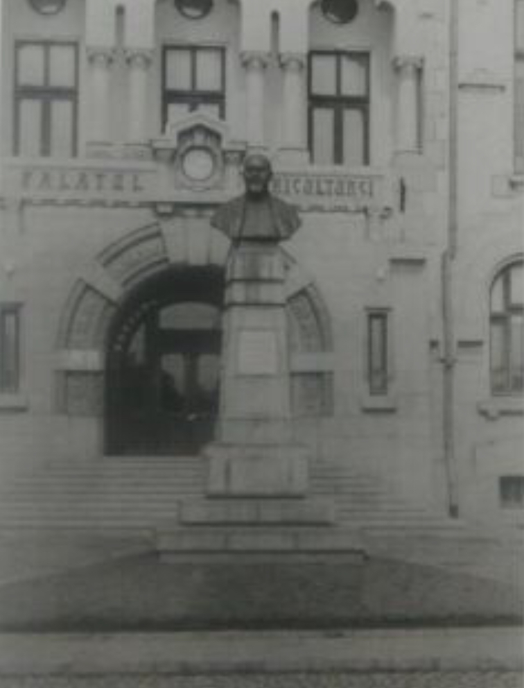 Statue of Alexandru Constantinescu, Brăila